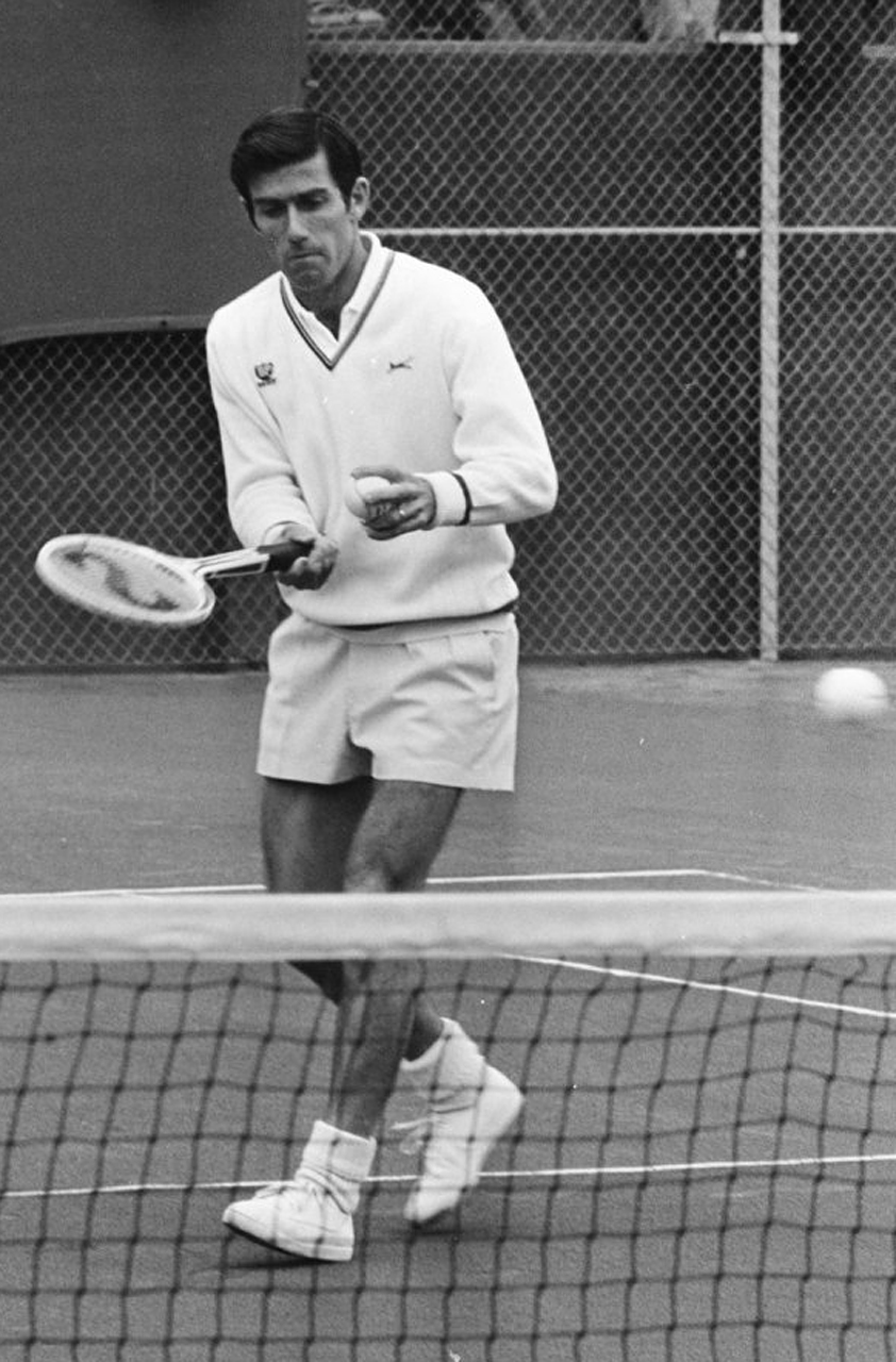 Australian tennis player Ken Rosewall at a tournament in Scheveningen, The Netherlands